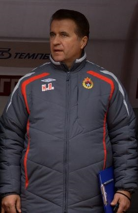 Nikolai Latysh as an assistant manager of PFC CSKA Moscow